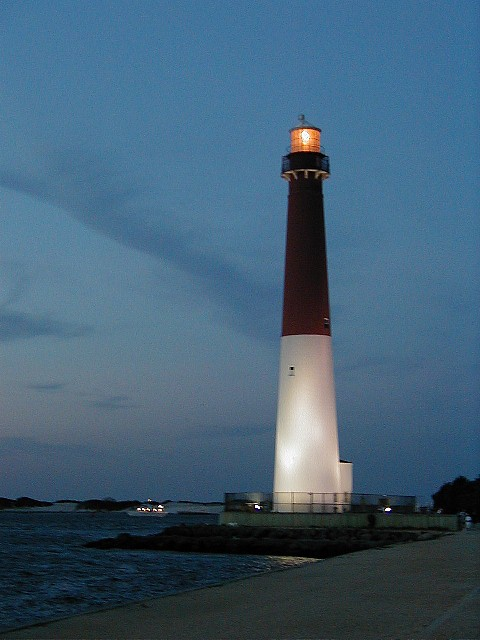 Barnegat Lighthouse in Barnegat Light, Long Beach Island, New Jersey.